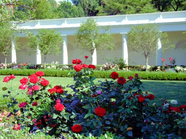 WHite House Rose Garden and West Colonnade